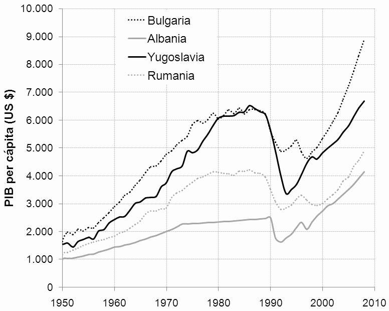 Comparison of GDP per capita of some eastern Europe Countries Source: Angus Madisson, World Population, GDP and Per Capita GDP, 1-2010 AD